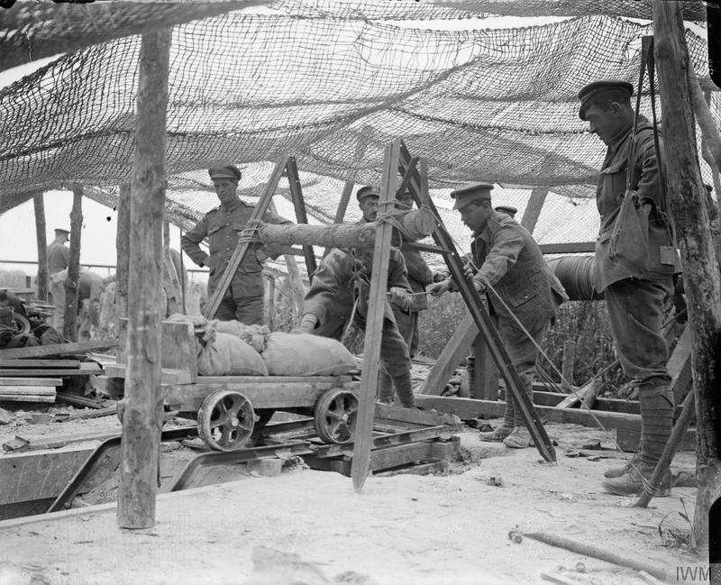 The German Spring Offensive, March-july 1918 Work of the Royal Engineers. Disposal of excavated spoil. Making strong-points in a reserve line at Basseux. The scrim covered windlass where the excavated spoil is brought to the surface. The camouflage prevents detection of the work from the air.